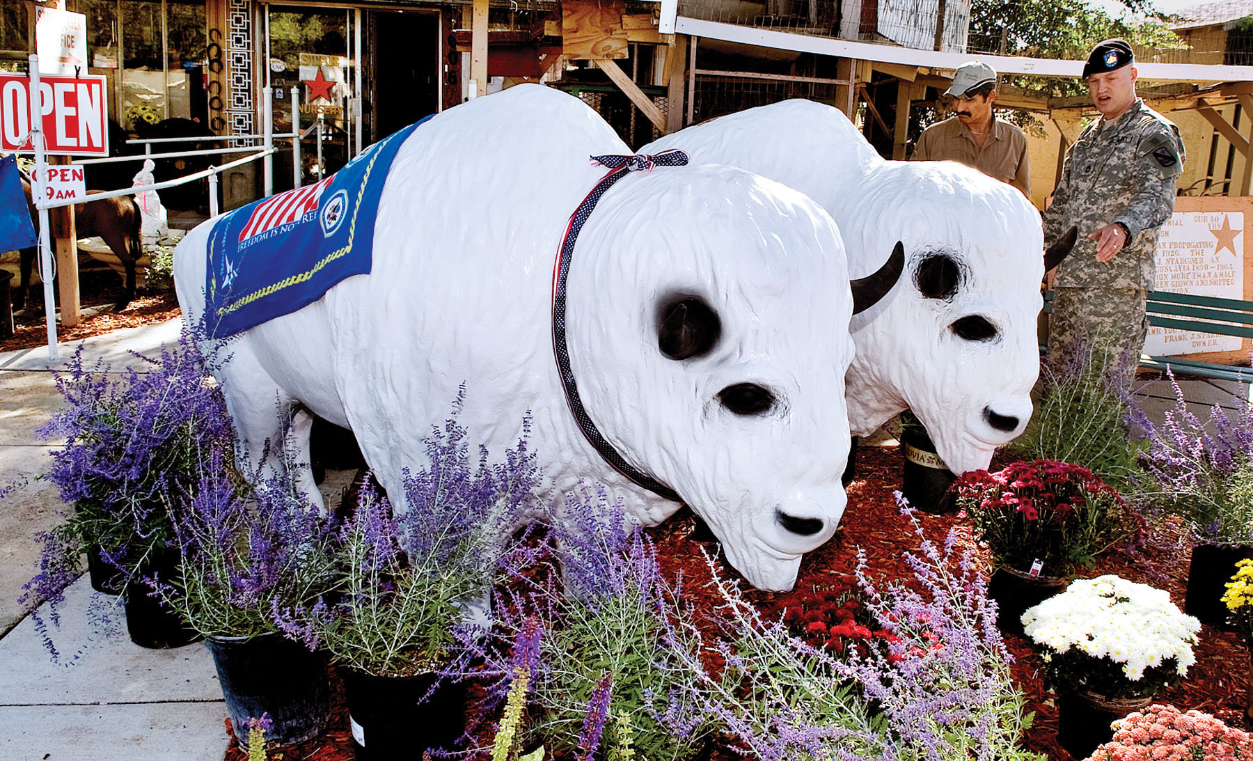 Brigade mascot refurbished and duplicated by the original manufacturer